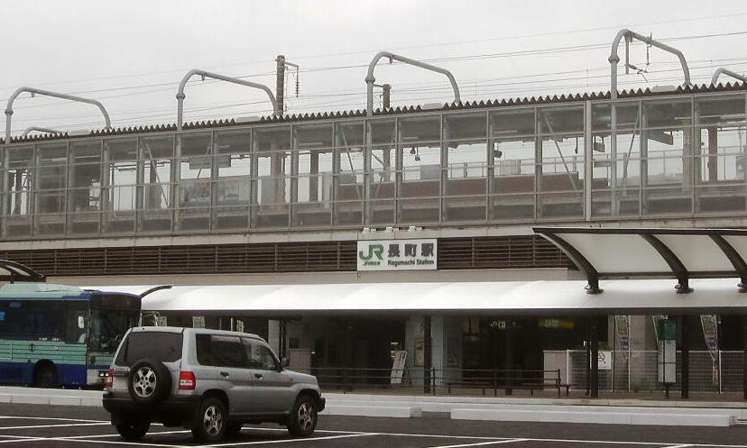 長町駅（東口） Nagamachi Station. East Japan Railway Co.